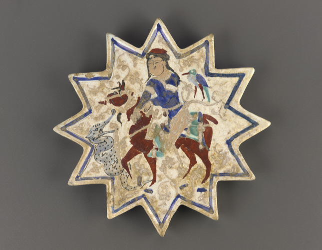 Rustam and the dragon late 12th century Saljuq dynasty Stonepaste painted with enamel H: 18.3 W: 1.7 cm Kashan, Iran